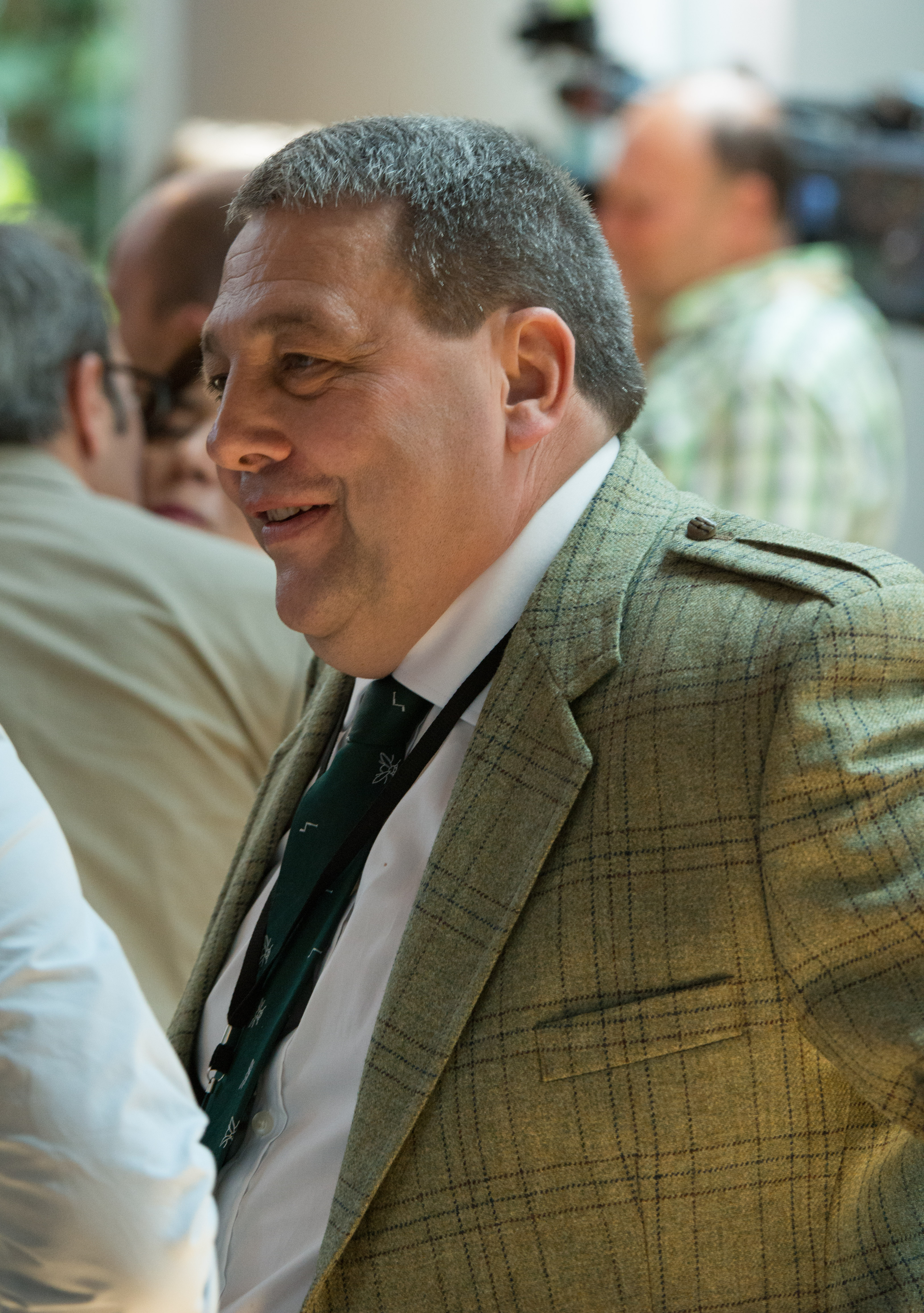 David Coburn, MEP